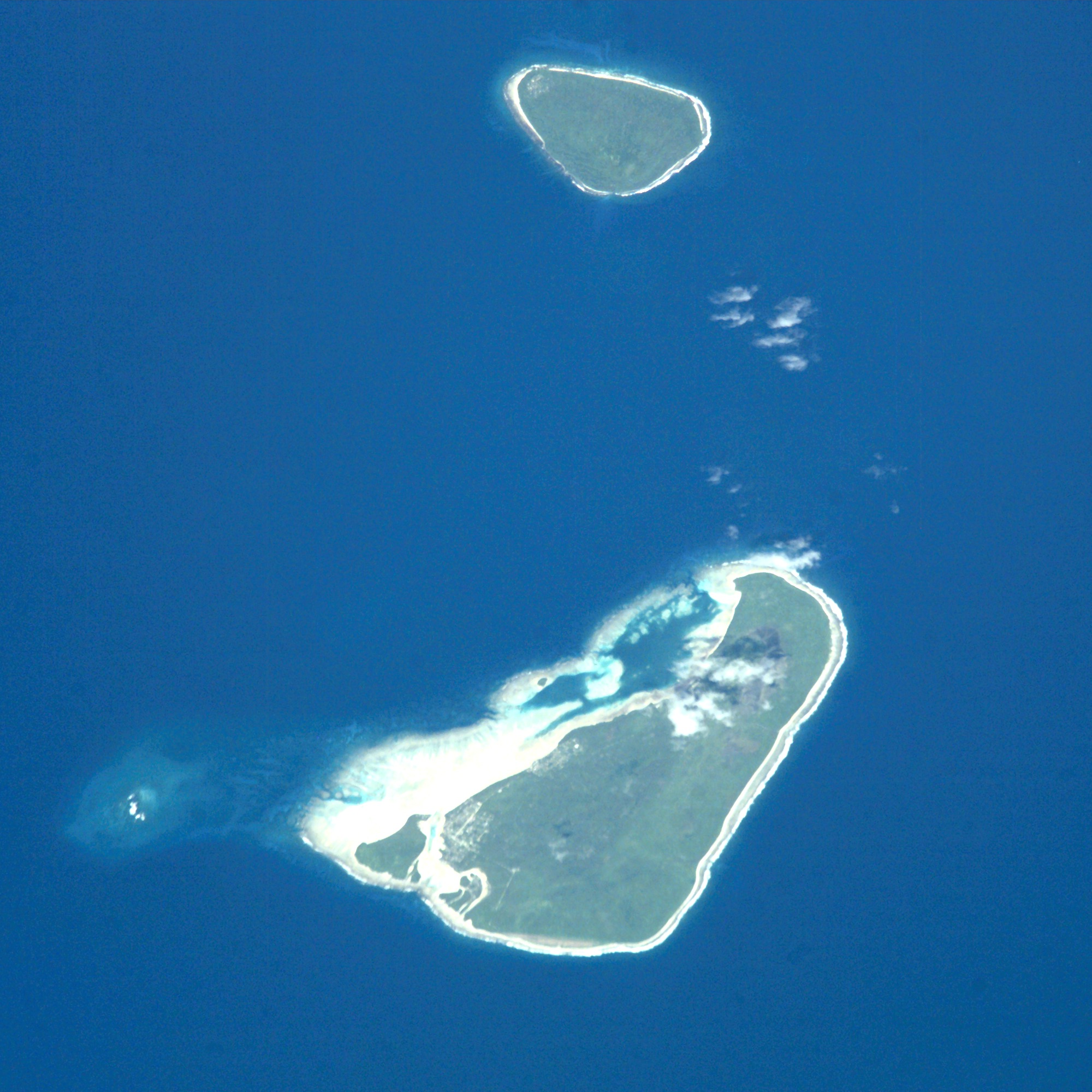 NASA picture of Niuatoputapu and Tafahi. North is up in this image.